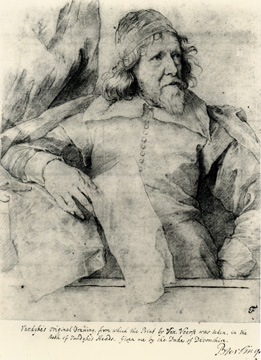 Red chalk portrait of Inigo Jones by Anthony van Dyck. Low-res image